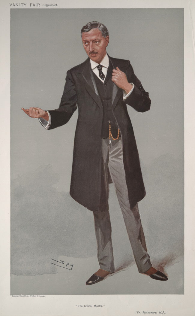 Men of the Day No. 1087: Caricature of Thomas Macnamara MA LLD MP, British Minister of Labour. Caption reads "The School Master".